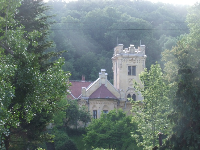 Adrian castle in Gheghie village, Bihor County, Romania